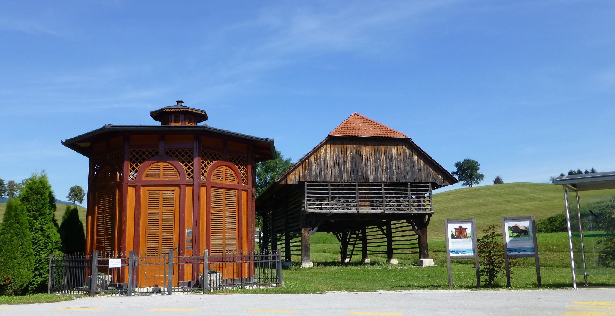 Cultural heritage (moved?) at Zgornja Kostrivnica: King's Spring (renovated in 2008, ID 15706) and double hayrack.